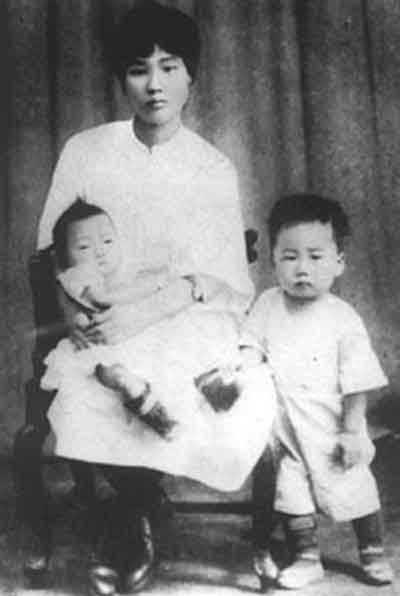 Yang Kaihui and her son Mao Anqin and Mao Anying.